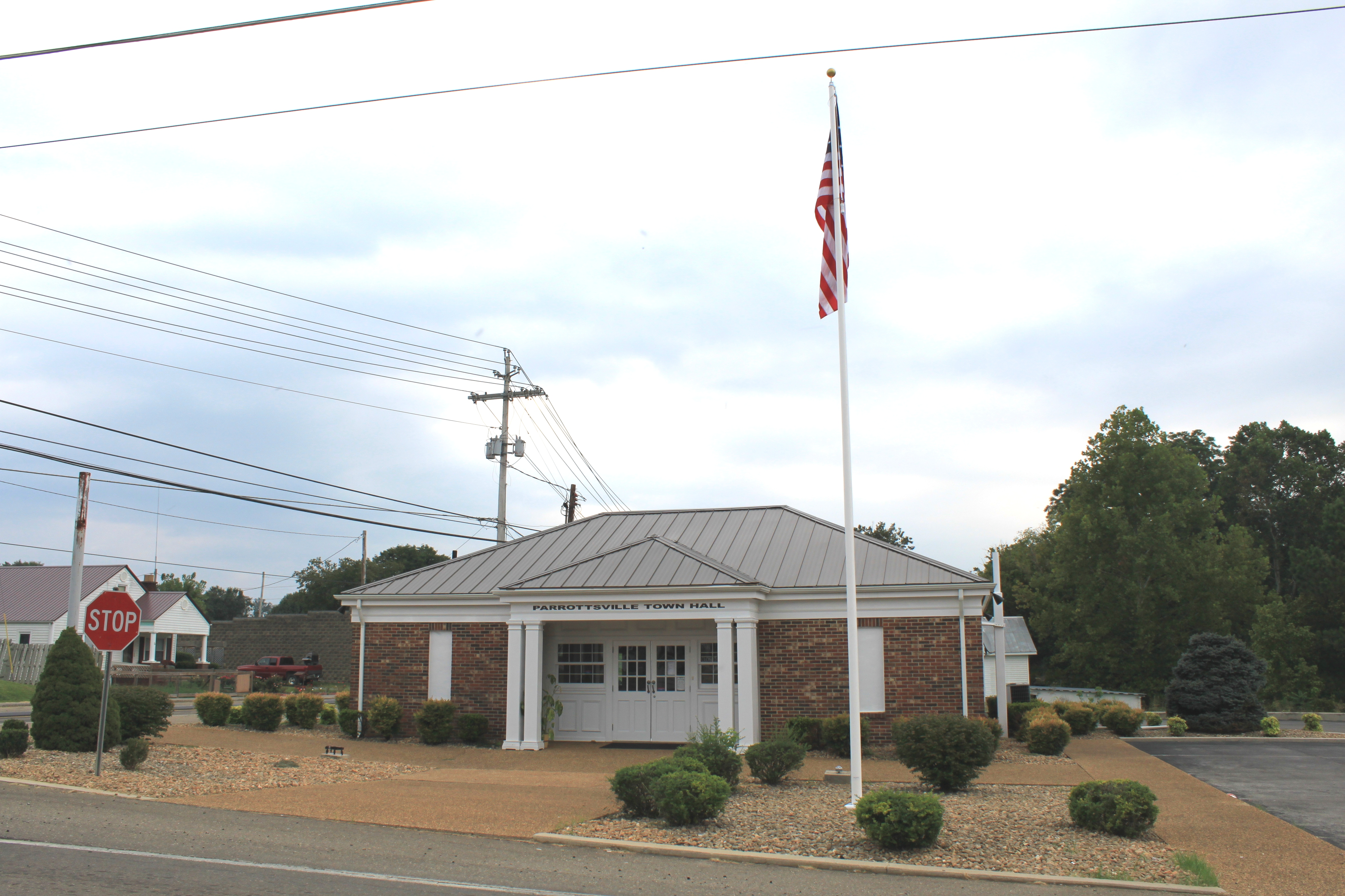 Parrottsville, Tenessee Town Hall, Baltimore Road at John Sevier Highway.